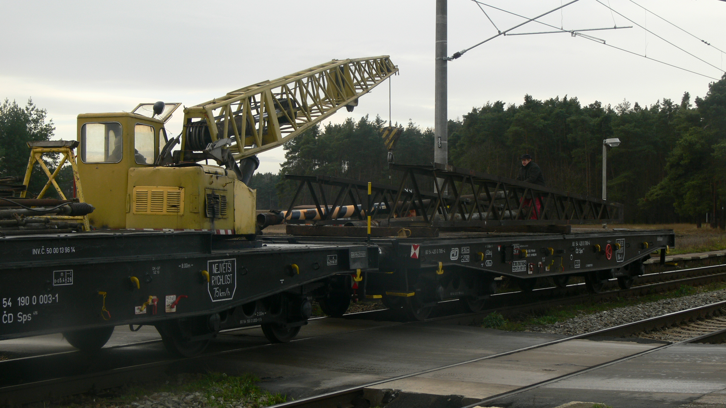 Railroad crane working on grade crossing. Czech Republic, Europe.